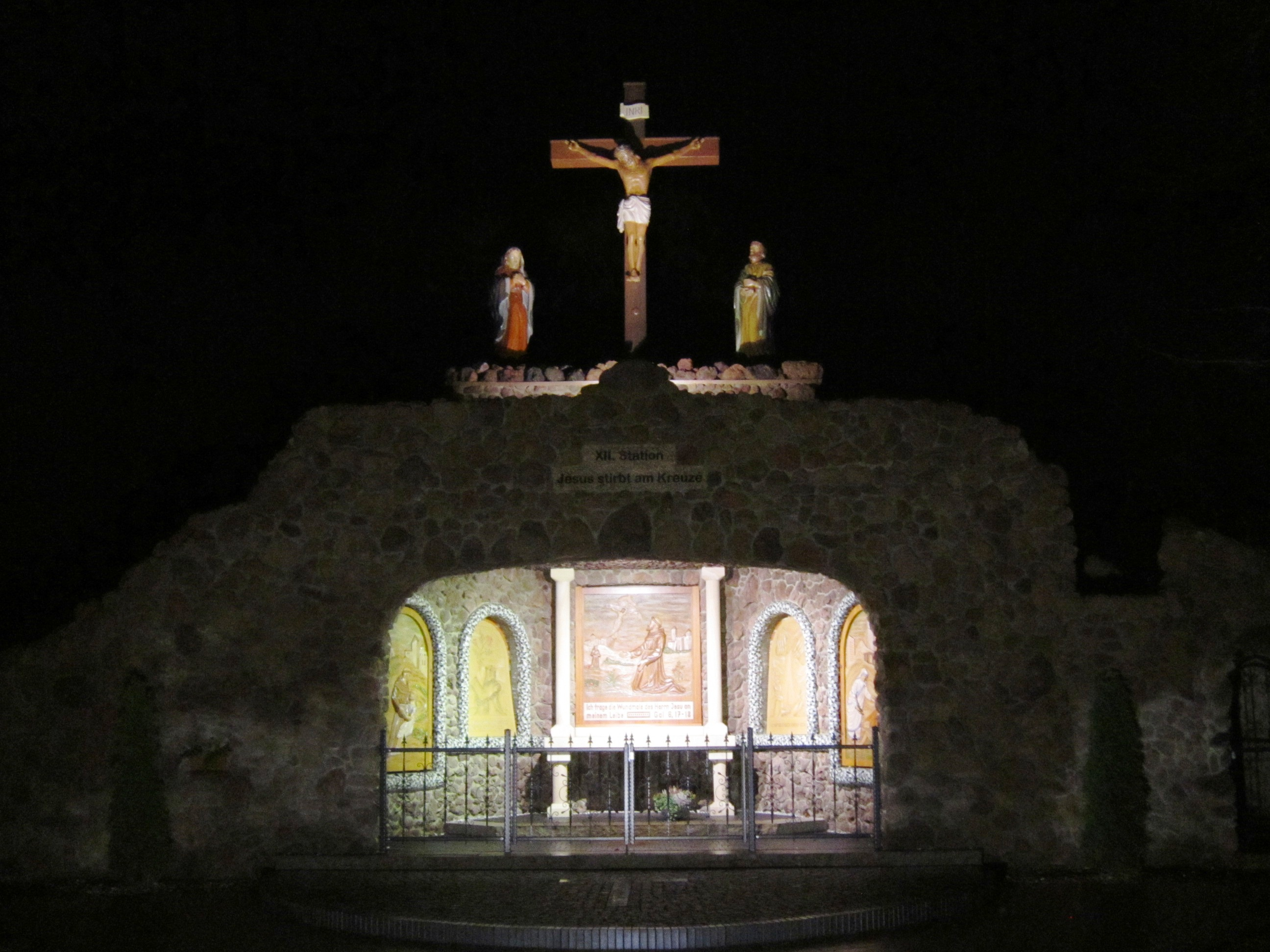 Calvary hill as station of the cross XII in Mühlen